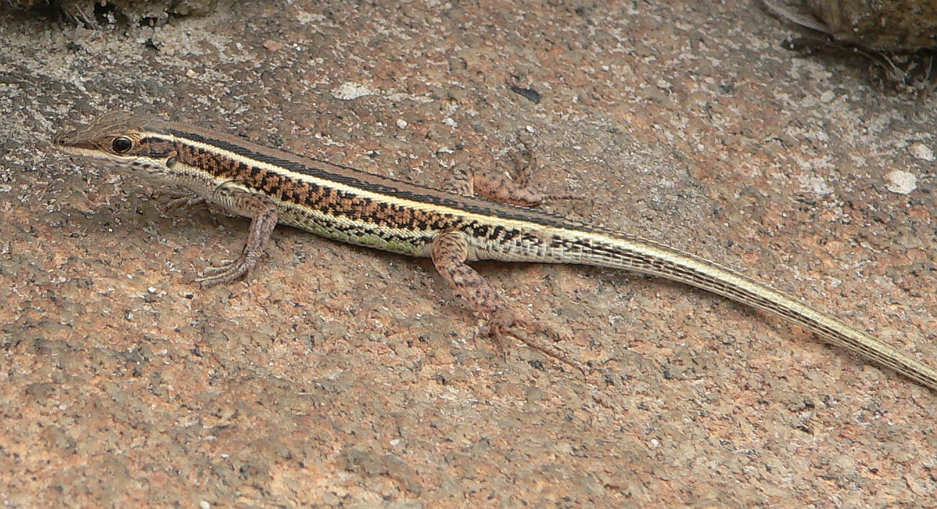 Ophisops leschenaultii adult from Bannerghatta, India